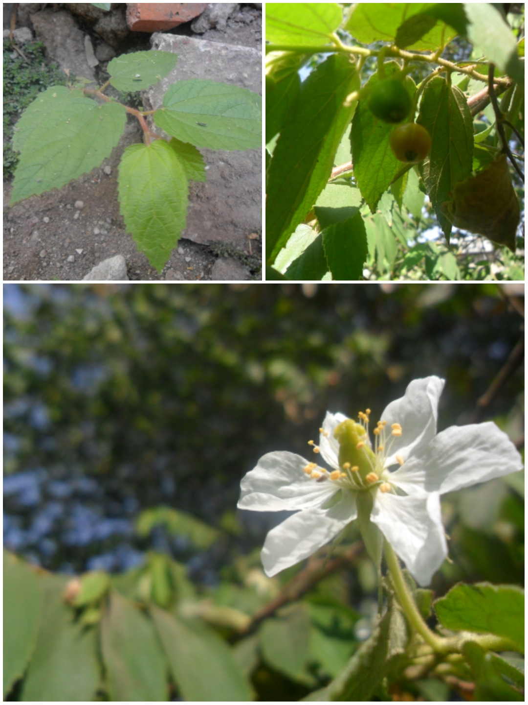 muntingia calabura